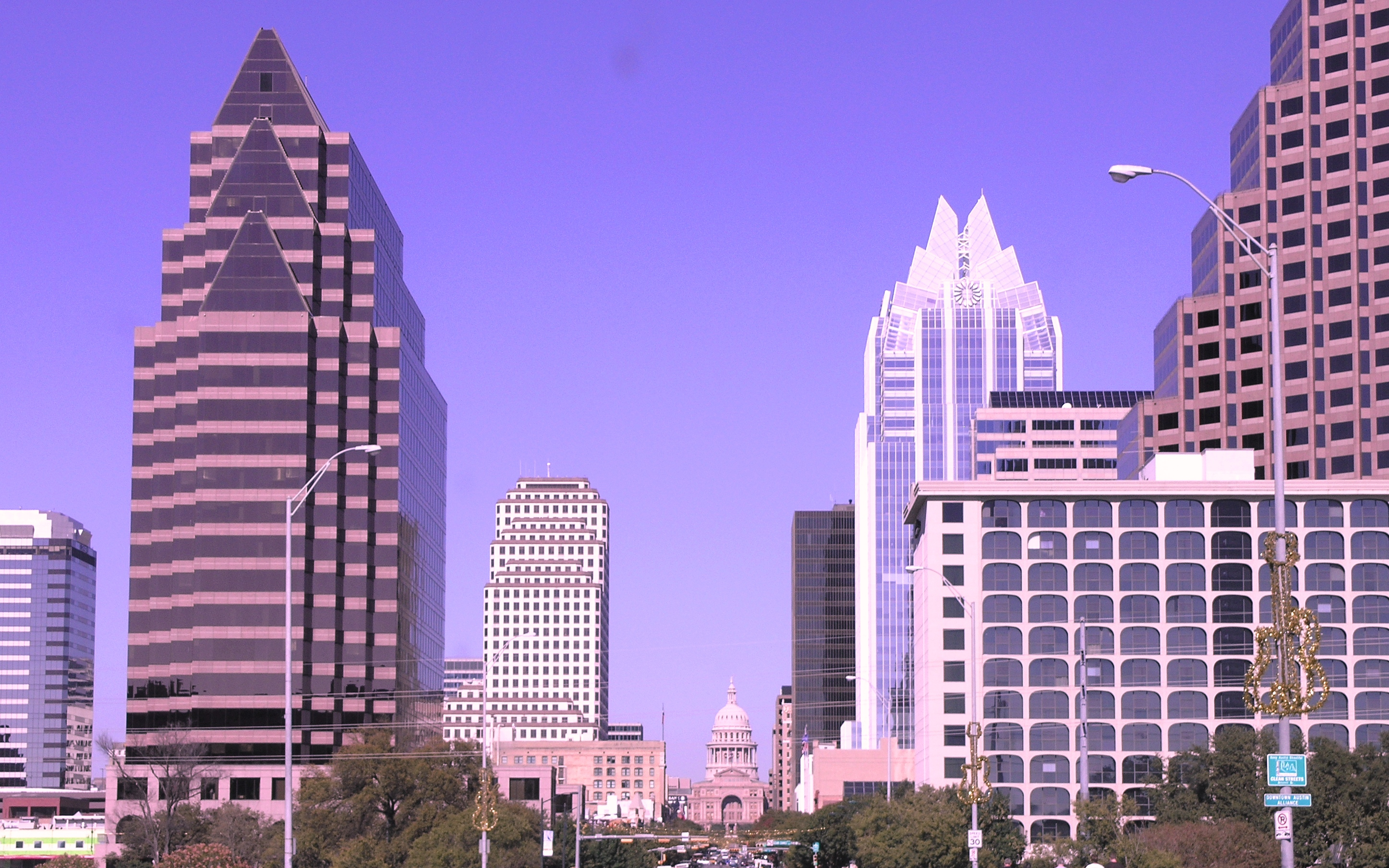 Image of Austin, Texas